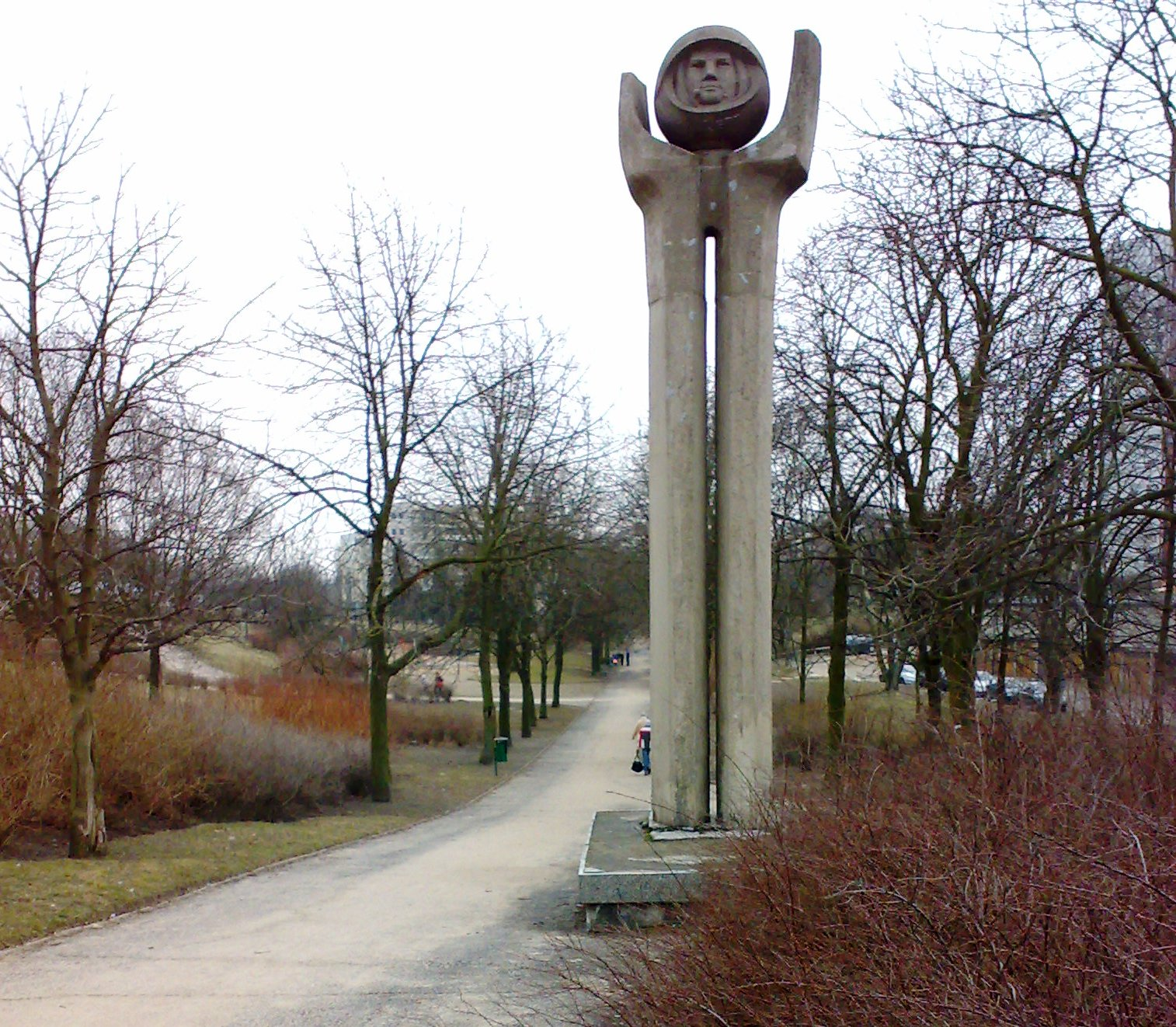 Gagarin Monument - Poznan.